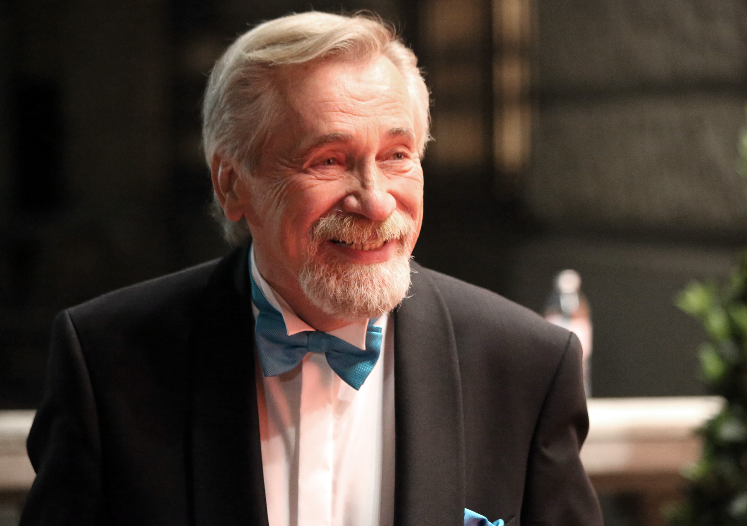 Peter Rapp at the Romy film awards (Hofburg Imperial Palace in Vienna)